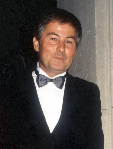 Swedish art dealer Jan-Erik von Löwenadler, as released by image creator Lars Jacob ProdPlace: Riddarhuset, Stockholm, Sweden